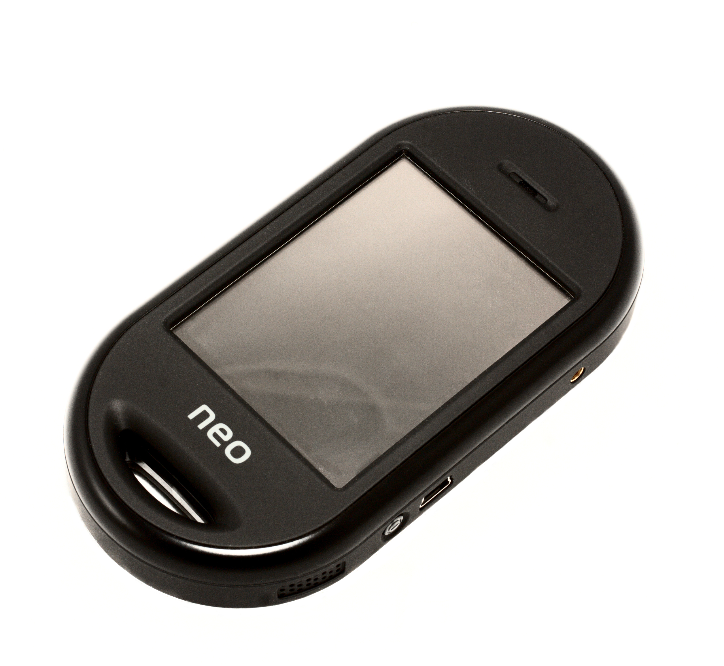 Second free/open source smartphone by openmoko project, model "FreeRunner", manufactured by FIC, runs Linux.